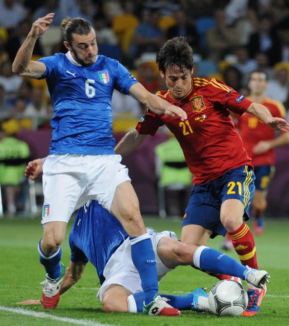 Federico Balzaretti and David Silva at Euro 2012 final Spain-Italy